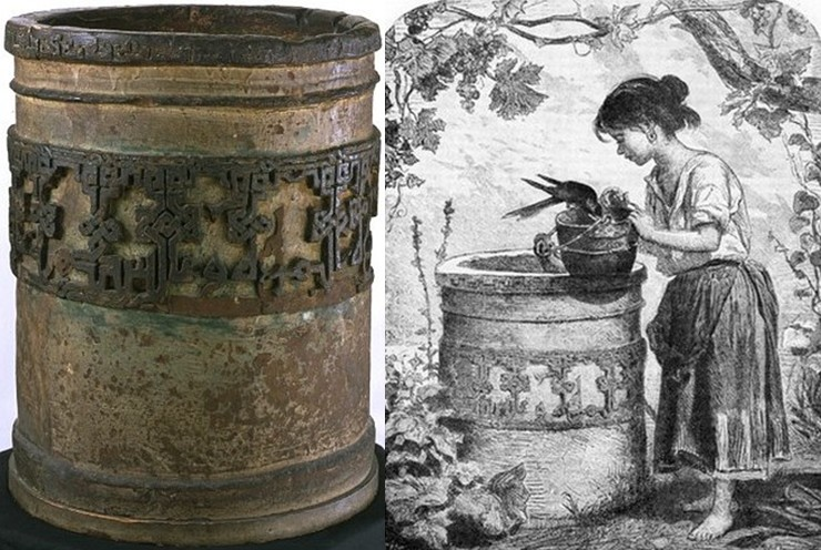 Arabian well head of Toledo (Spain), now in the Victoria and Albert Museum. Drawing of Valeriano Bécquer in 1856.